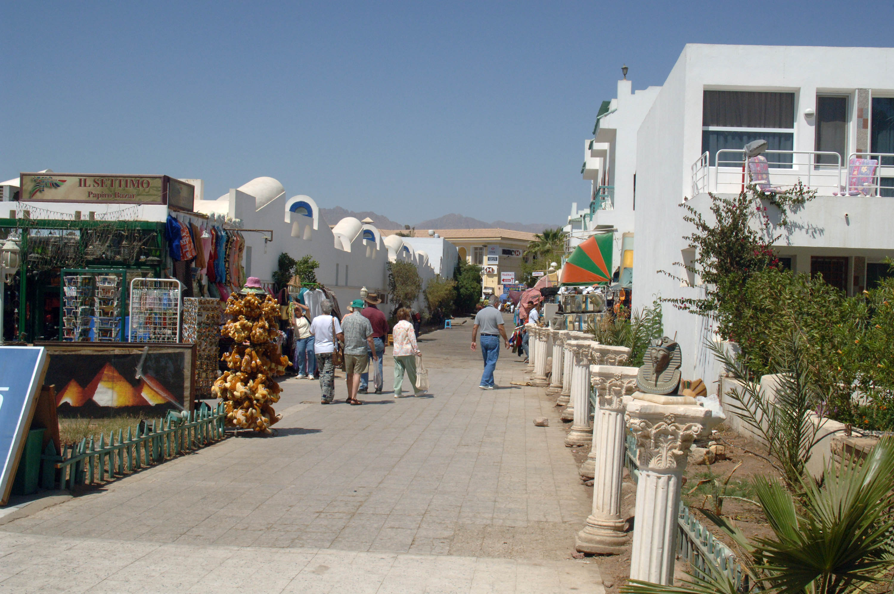 THIS IS TYPICAL OF THE MAIN THOROUGHFARE BESIDE THE BEACH IN SHARM EL SHEIK. MANY HOTELS AND RESORTS ARE ALONG THE RIGHT